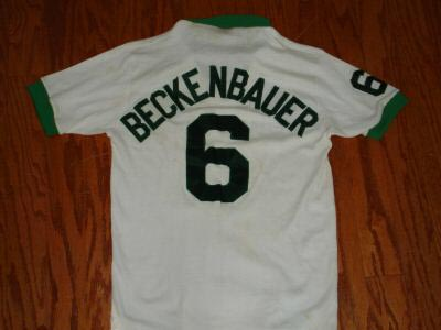 Shirt Franz Beckenbauer, New York Cosmos 1977 (Uploaded using CommonsHelper or PushForCommons)